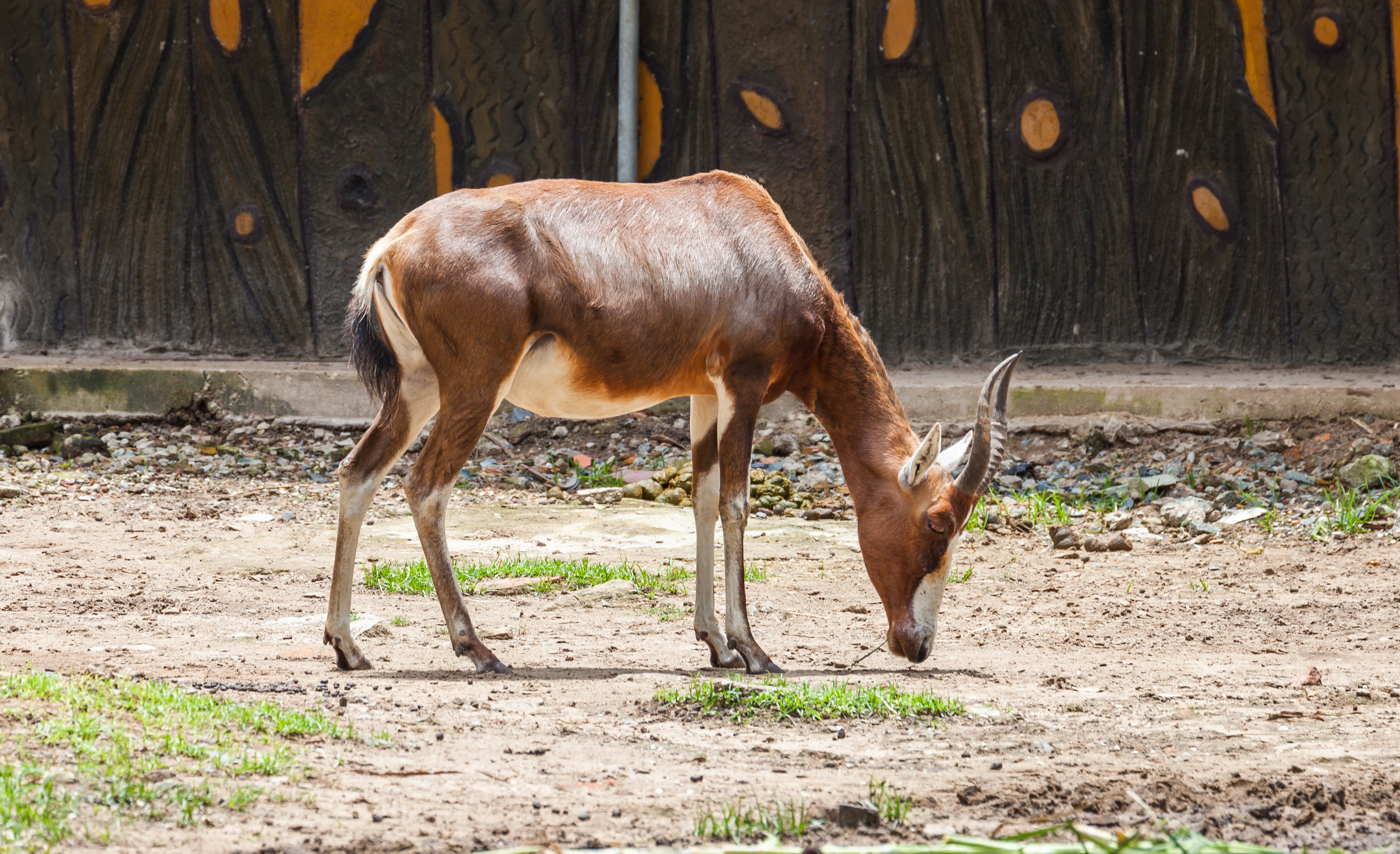 Blesbok (Damaliscus pygargus phillipsi), Ho Chi Minh City Zoo, Vietnam